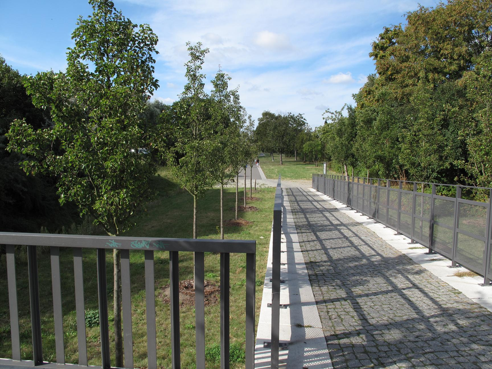 Opening of the green space Bullengraben at Elsflether Weg. The Bullengraben (german for: bullditch) is a drainage channel to the river Havel in the localities Staaken, Wilhelmstadt and Spandau in the borough Berlin-Spandau, Germany. In 2007 there was opened the green space Bullengraben (german: „Grünzug Bullengraben“) along the 4,5 kilometre long ditch.